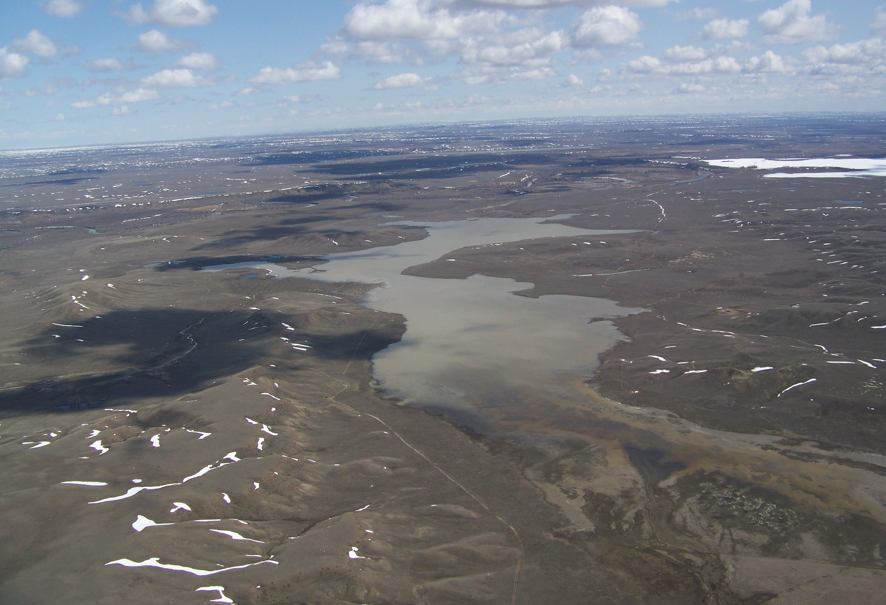 Aerial view of Hewitt Lake NWR Credit: USFWS